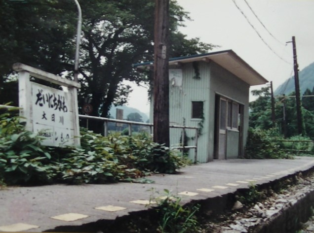 Hokutetsu Kinmei line Dainichigawa station